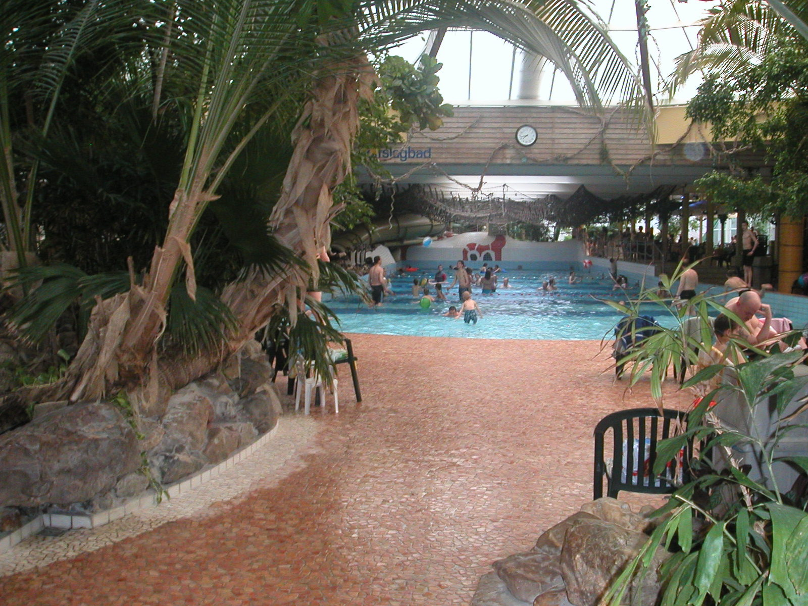 The indoor pool at Landal Het Vennenbos, The Netherlands.